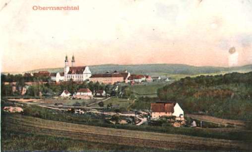 Obermarchtal 1907, more exactly the Marchtal Abbey